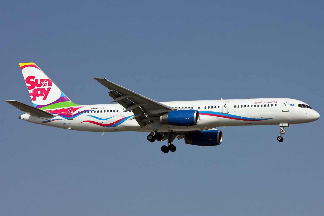 Sunday Airlines Boeing 757-200 on finals at Antalya